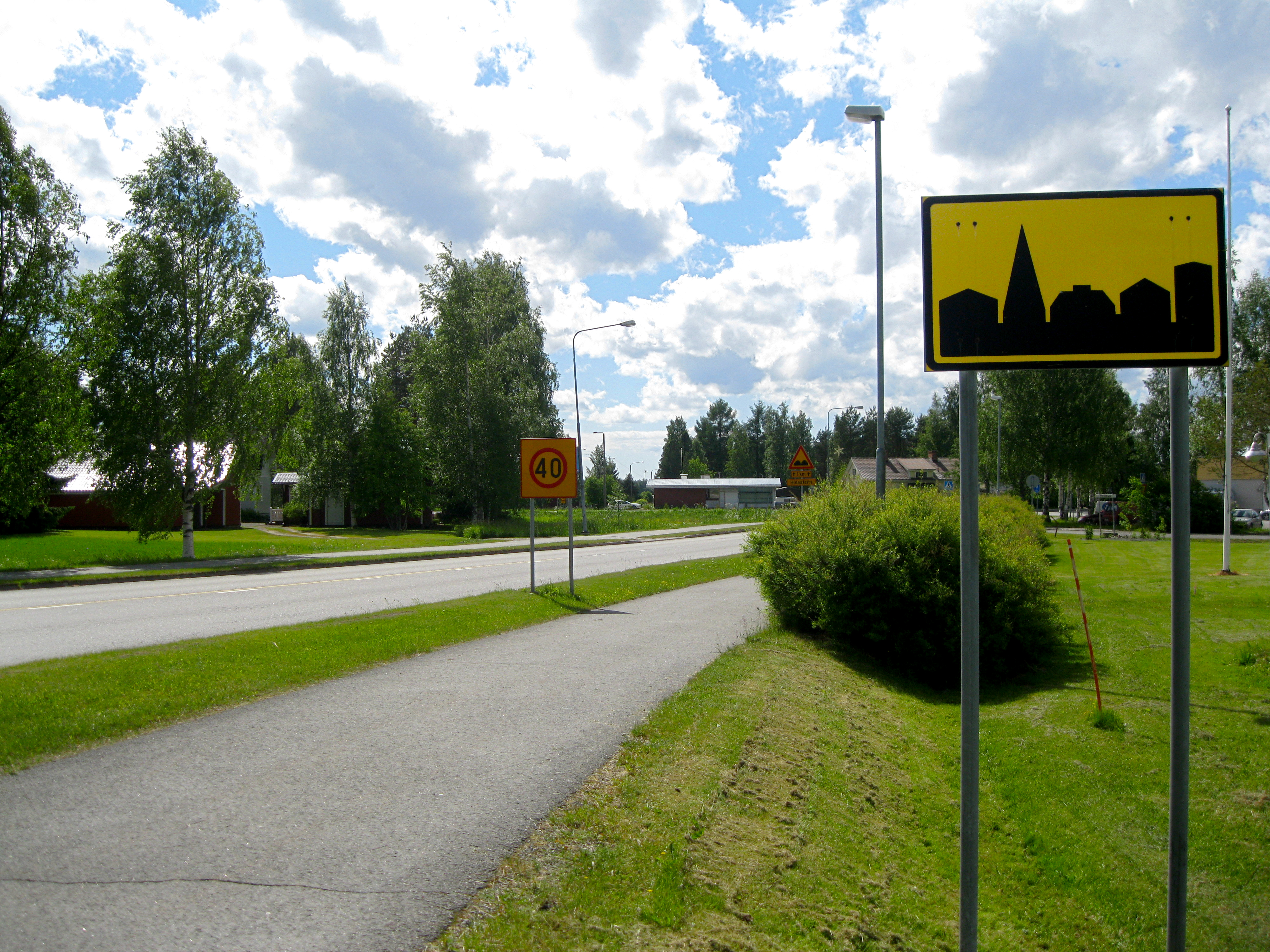 Finnish built-up area road sign in Vimpeli.